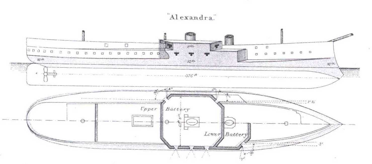 Line drawing and plan of HMS Alexandra, commissioned in 1877.